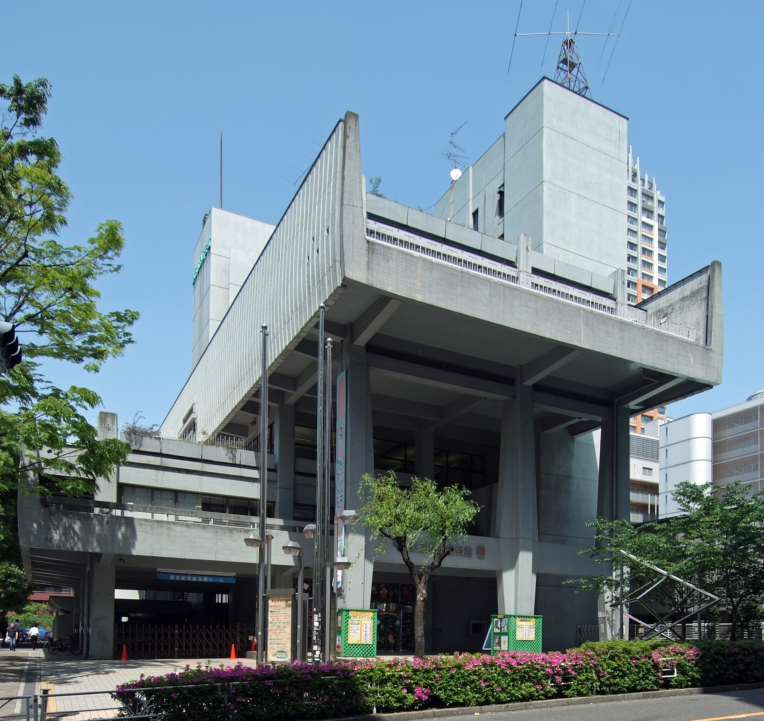 Tokyo metropolitan childrens hall, Shibya-ku Tokyo Japan, designed by Satio Otani in 1966.